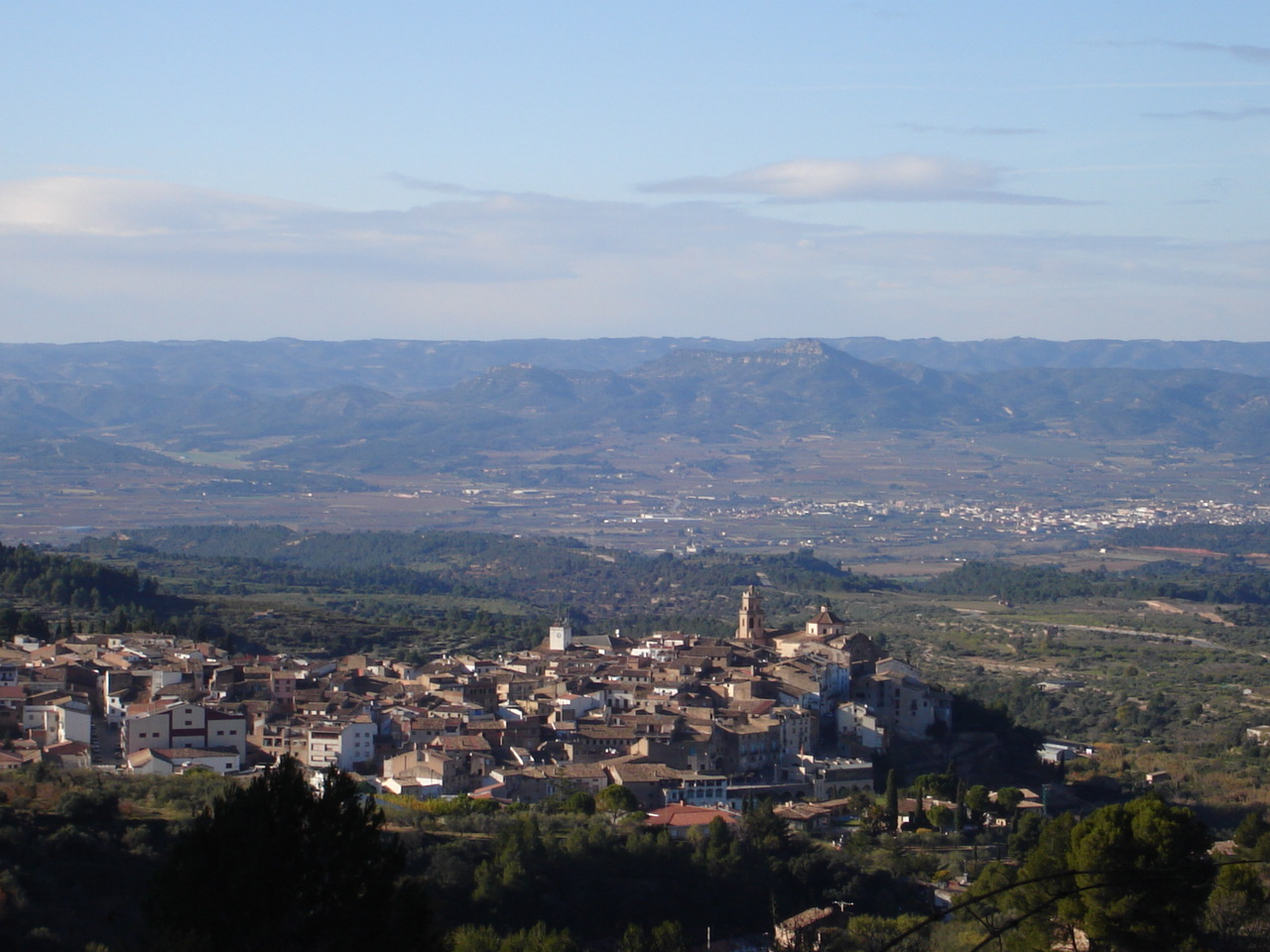 A view of Tivissa, Ribera d'Ebre, taken by me